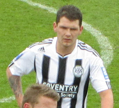 James Norwood